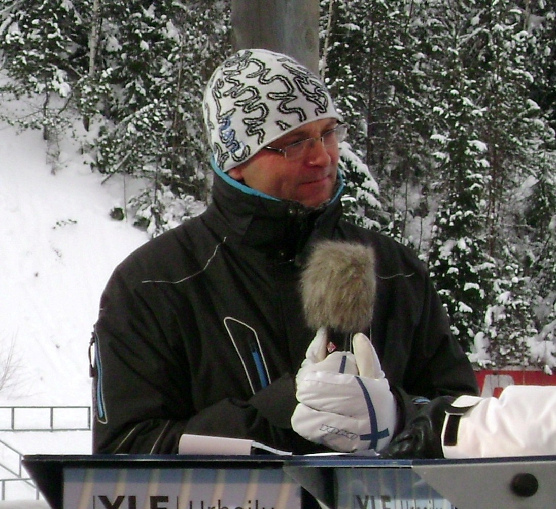 YLE sports journalist Tapio Suominen.